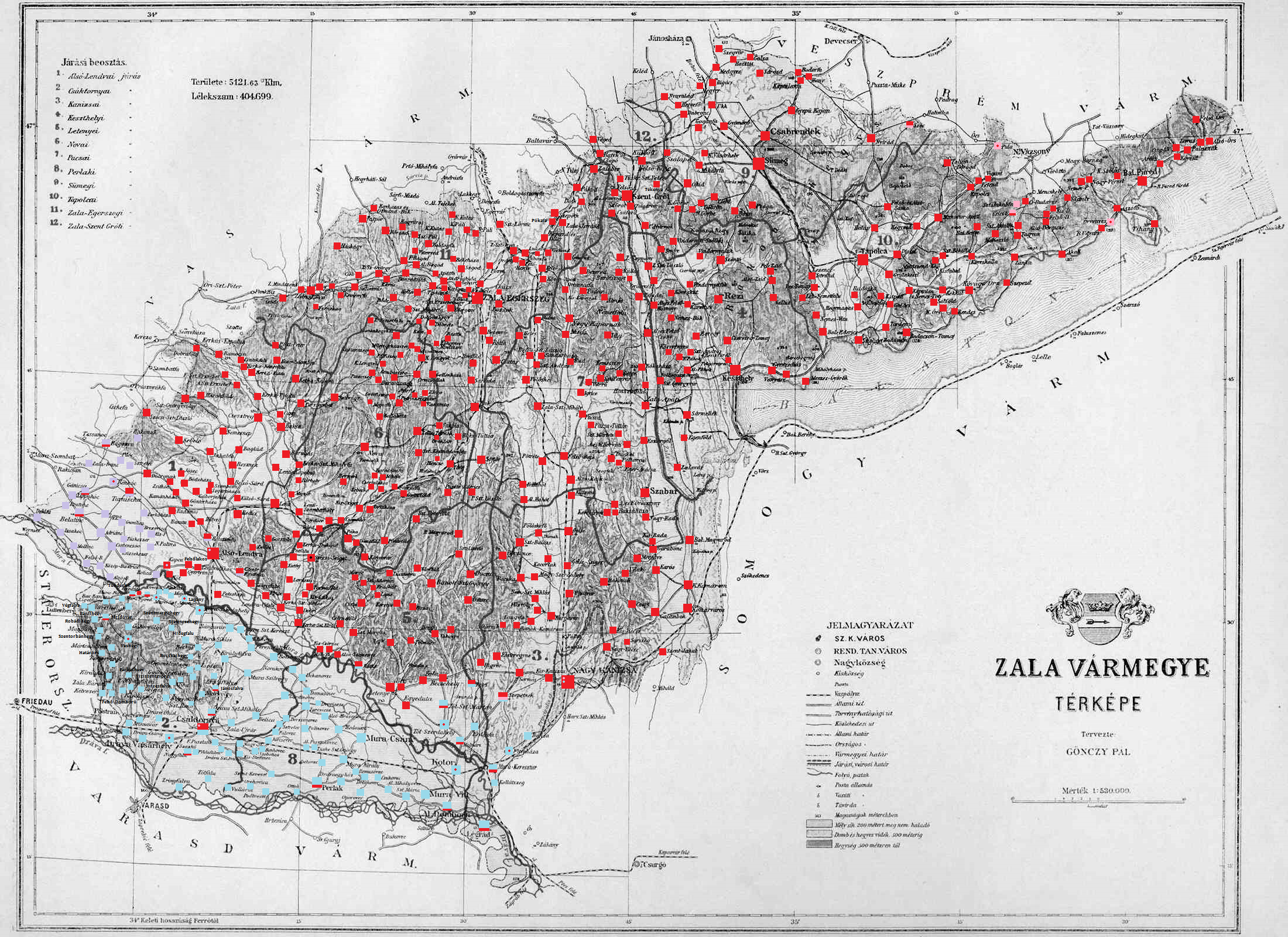 Ethnic map of the county (with data of the 1910 census). Key: red - Hungarians; light blue - Croatians; light violet - Slovenes; pink - Germans; black - Roma. Coloured dots in plain rectangles imply the presence of smaller minority populations (generally more than 100 people or 10%). Multicoloured rectangles imply cities and villages with multi-ethnic populations with the order of the stripes following the ethnic composition of the settlement.